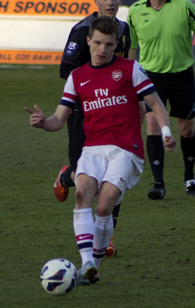 Thomas Eisfeld of Arsenal Football Club Passes forwards